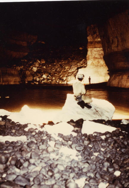 Safari Straight to Molossadie Passage in Sof Omar Cave: Ethiopia Form 1972 British Speleological Expedition to Ethiopia